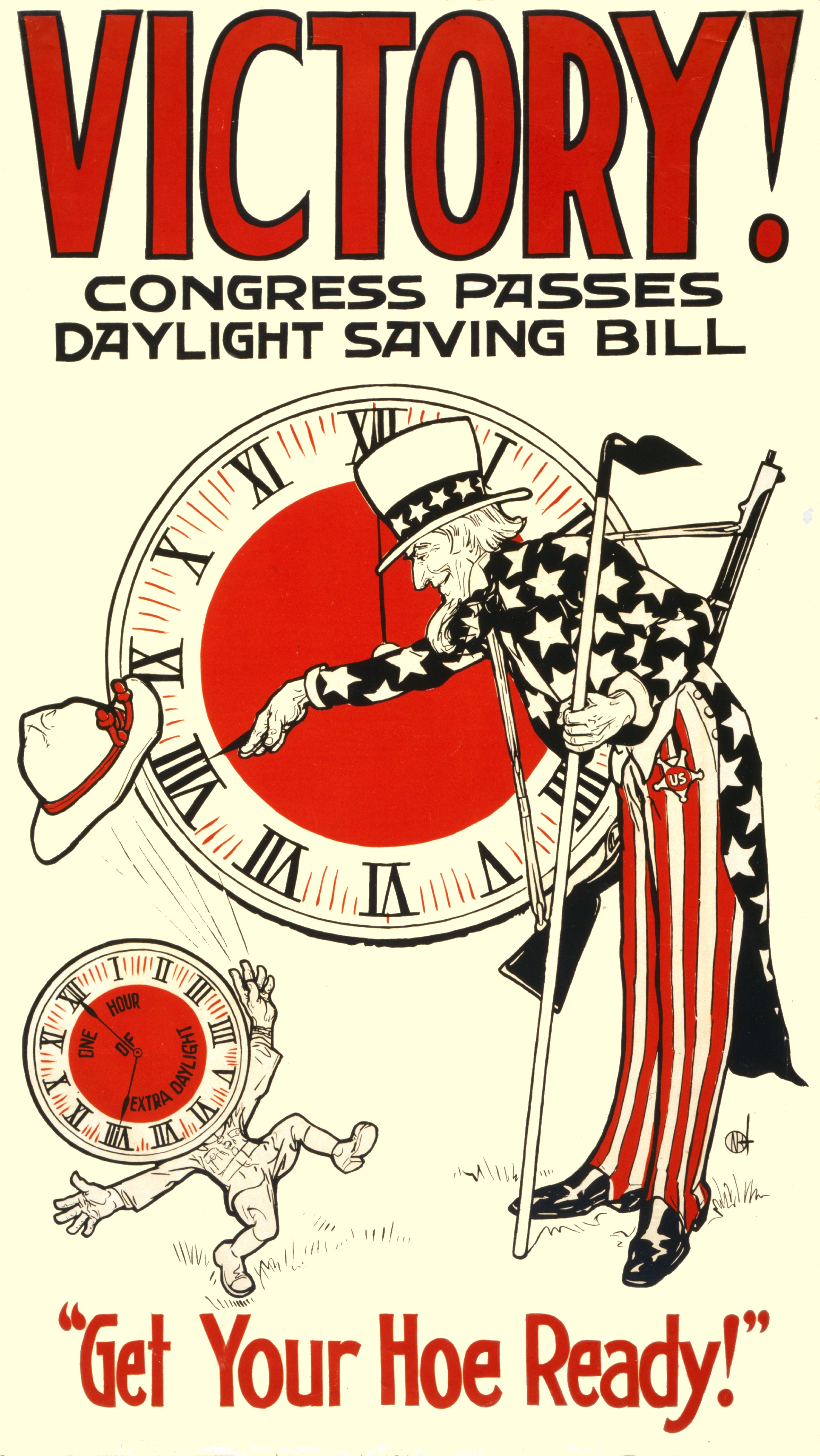 Poster titled "VICTORY! CONGRESS PASSES DAYLIGHT SAVING BILL" showing Uncle Sam turning a clock to daylight saving time as a clock-headed figure throws his hat in the air. The clock face of the figure reads "ONE HOUR OF EXTRA DAYLIGHT". The bottom caption says "Get Your Hoe Ready!" The original artist's monogram has not been identified. The original color lithograph is 95 cm × 53 cm. The Library of Congress archival photograph was cropped to include only the poster's contents, and the image was repaired to fix the damage in the original.